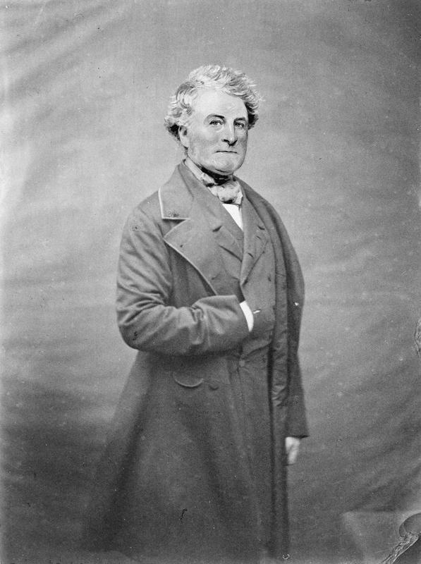 Crimean War 1854-56 Lieutenant General Sir Richard England, GCB, KH, Commander of the 3rd Division in the Crimea.